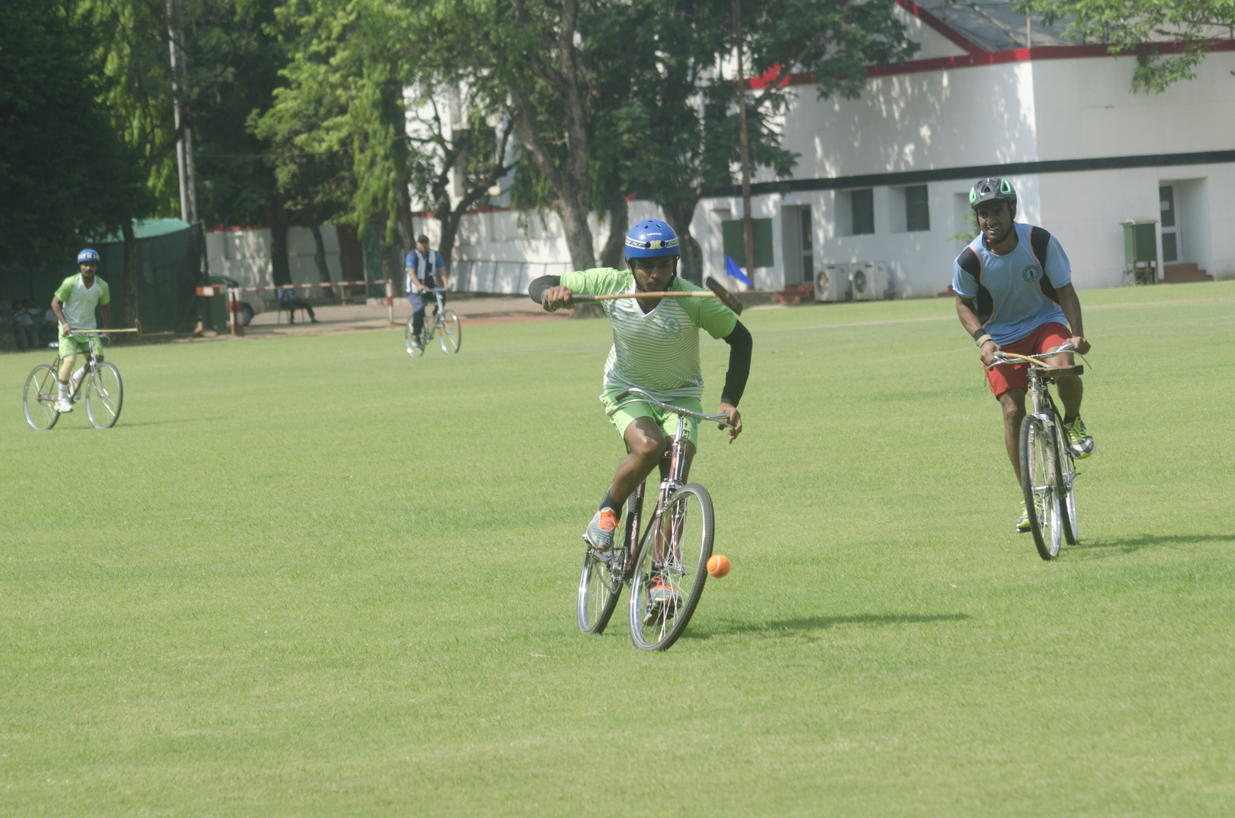 Cycle Polo action from CC&FC Kolkata